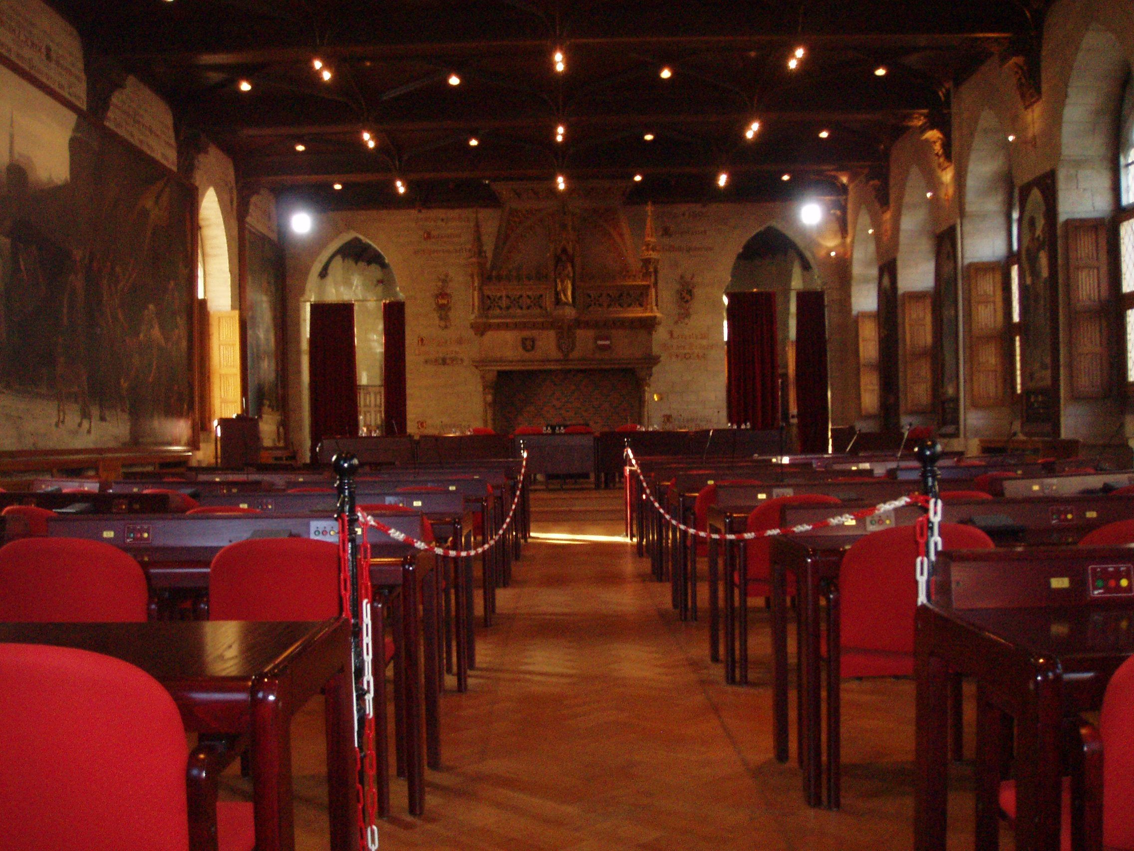 Town hall Louvain gotische zaal